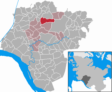 This map shows the area of the municipality Drage in the Kreis (district) Steinburg, Schleswig-Holstein, Germany.